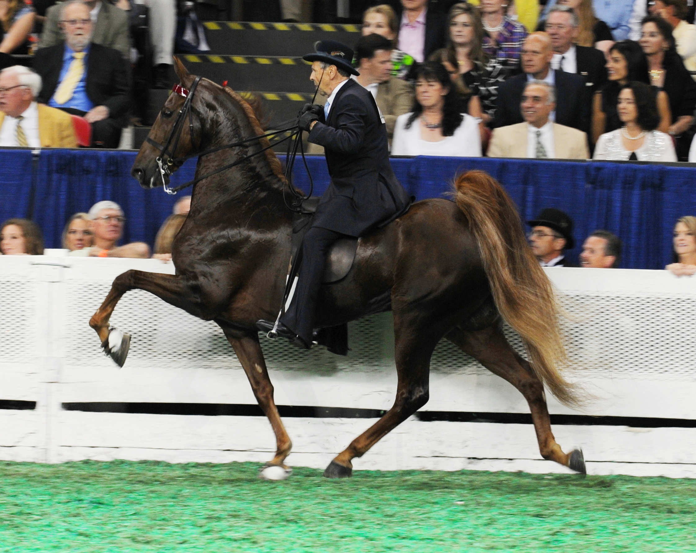 2009, 2010, and 2011 World's Grand Champion 5-Gaited horse Courageous Lord performing the Rack, exhibiting how only one foot is off the ground at a time.